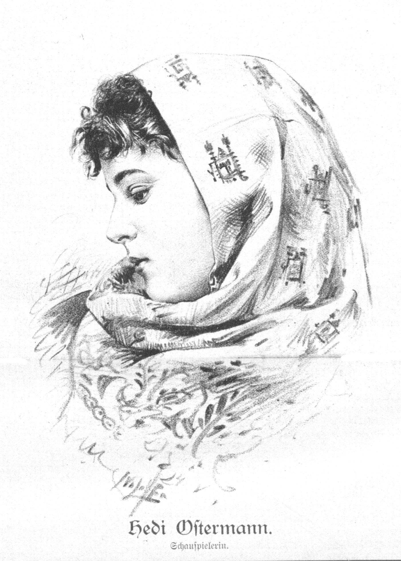 Portrait of Hedwig "Hedi" von Ostermann, German and Austrian actress active around the turn of the 19th/20th century.